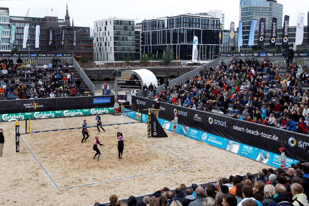 Ball @ smart beach tour 2012